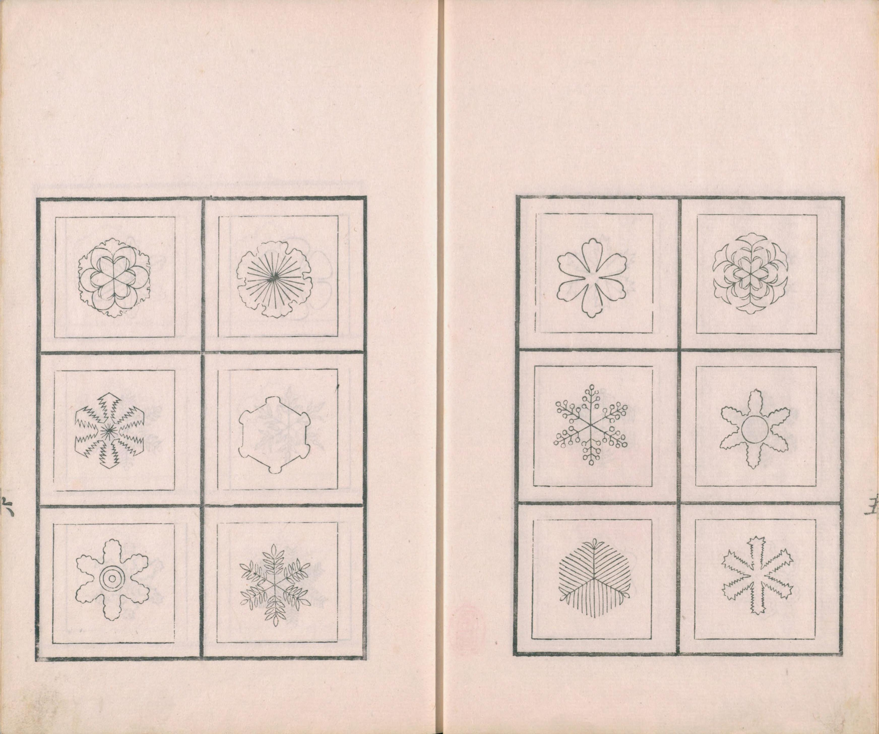 One page in 雪華図説 depicting snow crystal shapes